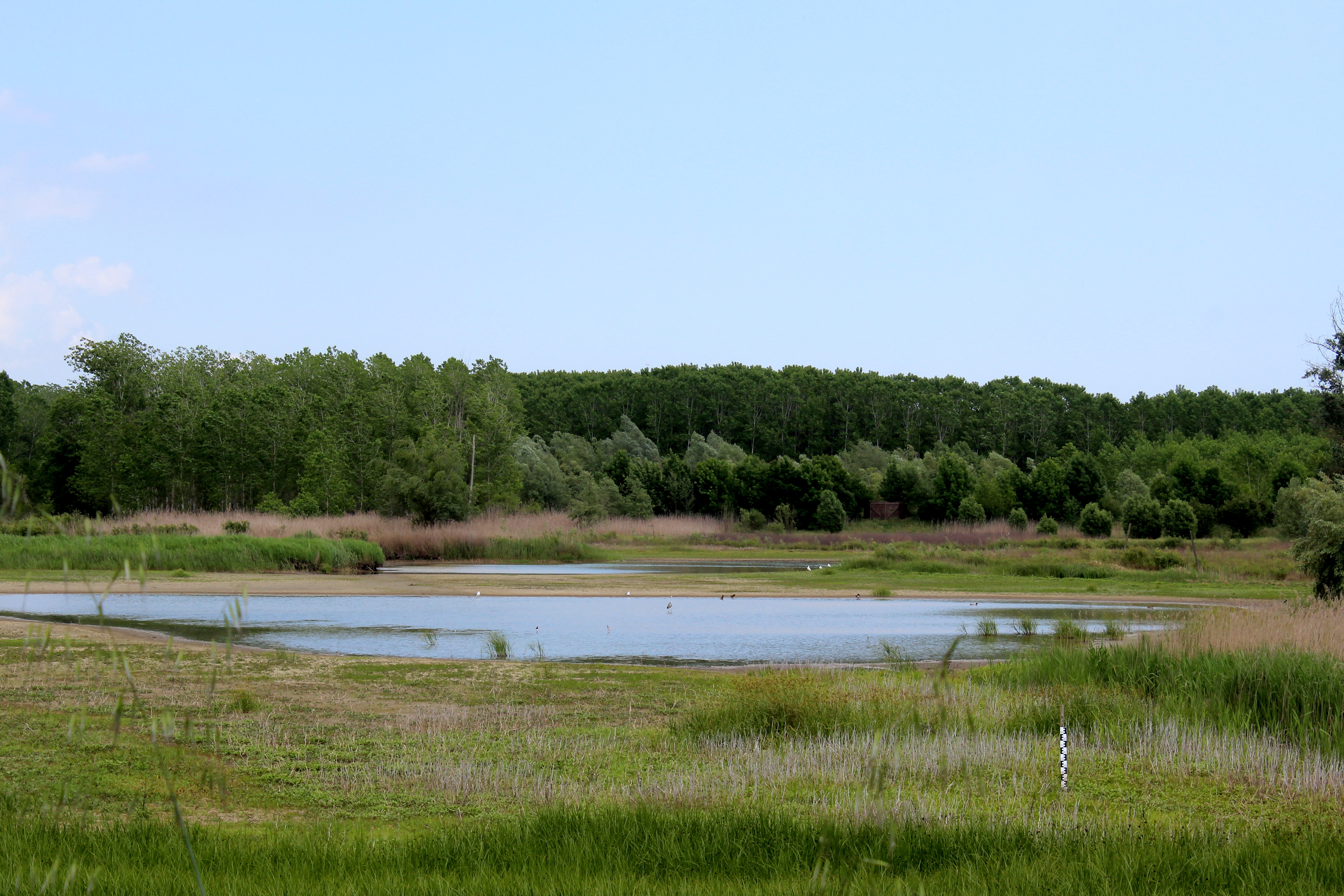 This is a a photo of a natural area in Catalonia, Spain, with id: ES510109